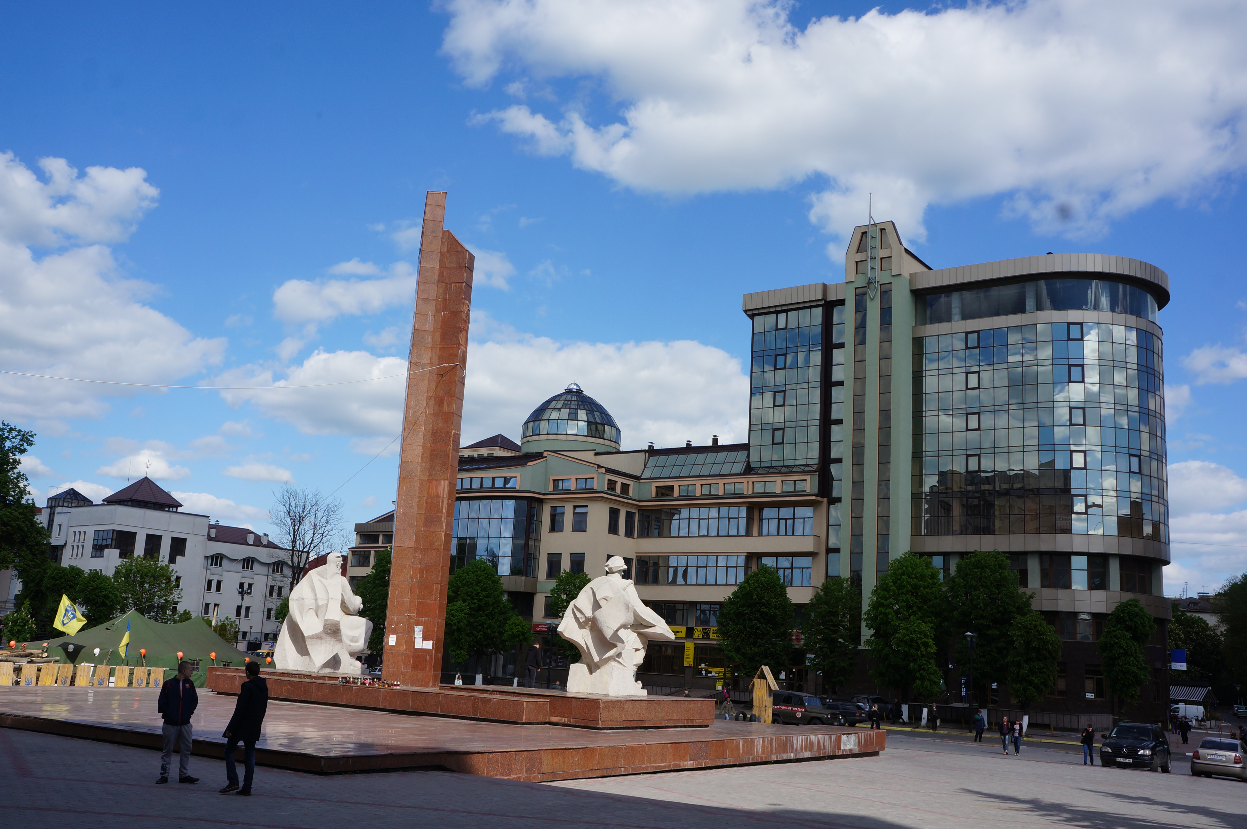 A modern building in Ivano-Frankivsk